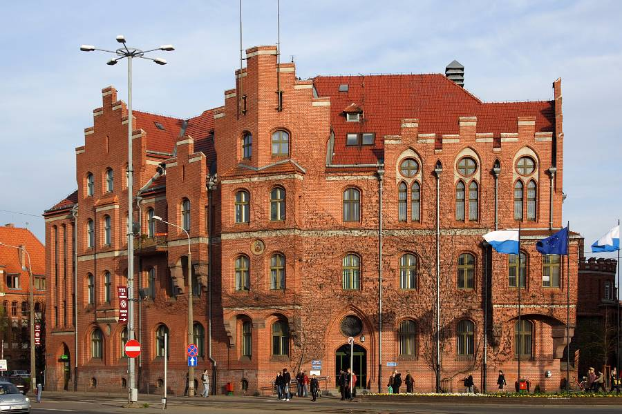 Building at 8 Wały Generała Sikorskiego Street in Toruń, nowadays seat of City Council.